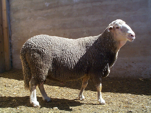 cartera sheep